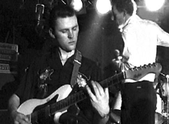 Justin Jones during an And Also The Trees - Concert in Dortmund, 8 May 1998. The man behind him is his brother Simon Huw Jones.